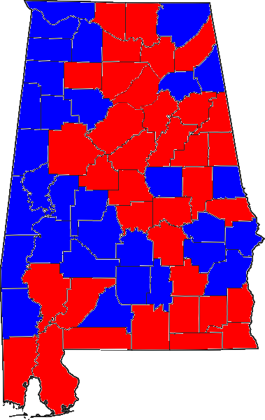 1996 Alabama Senate election results by county.